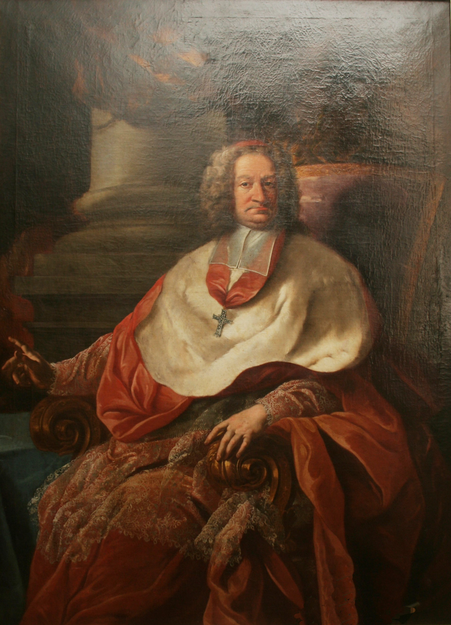 Portrait of Count Leopold Anton von Firmian (1679-1744)